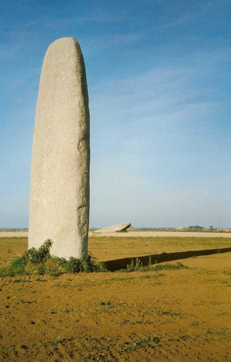 Kergadiou Menhir, Plourin, Finistère, Brittany .